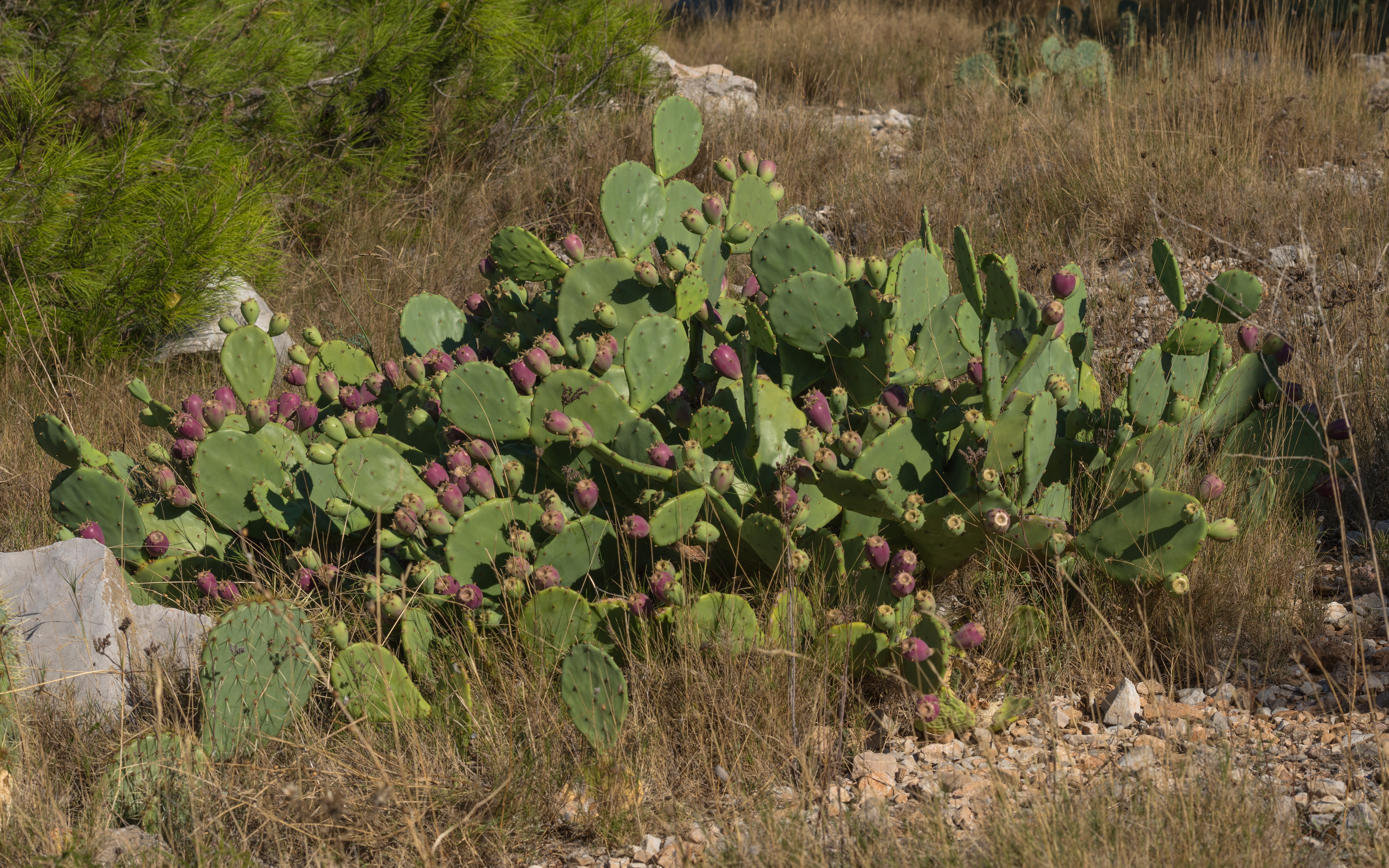 Opuntia stricta (Erect Prickly Pear).